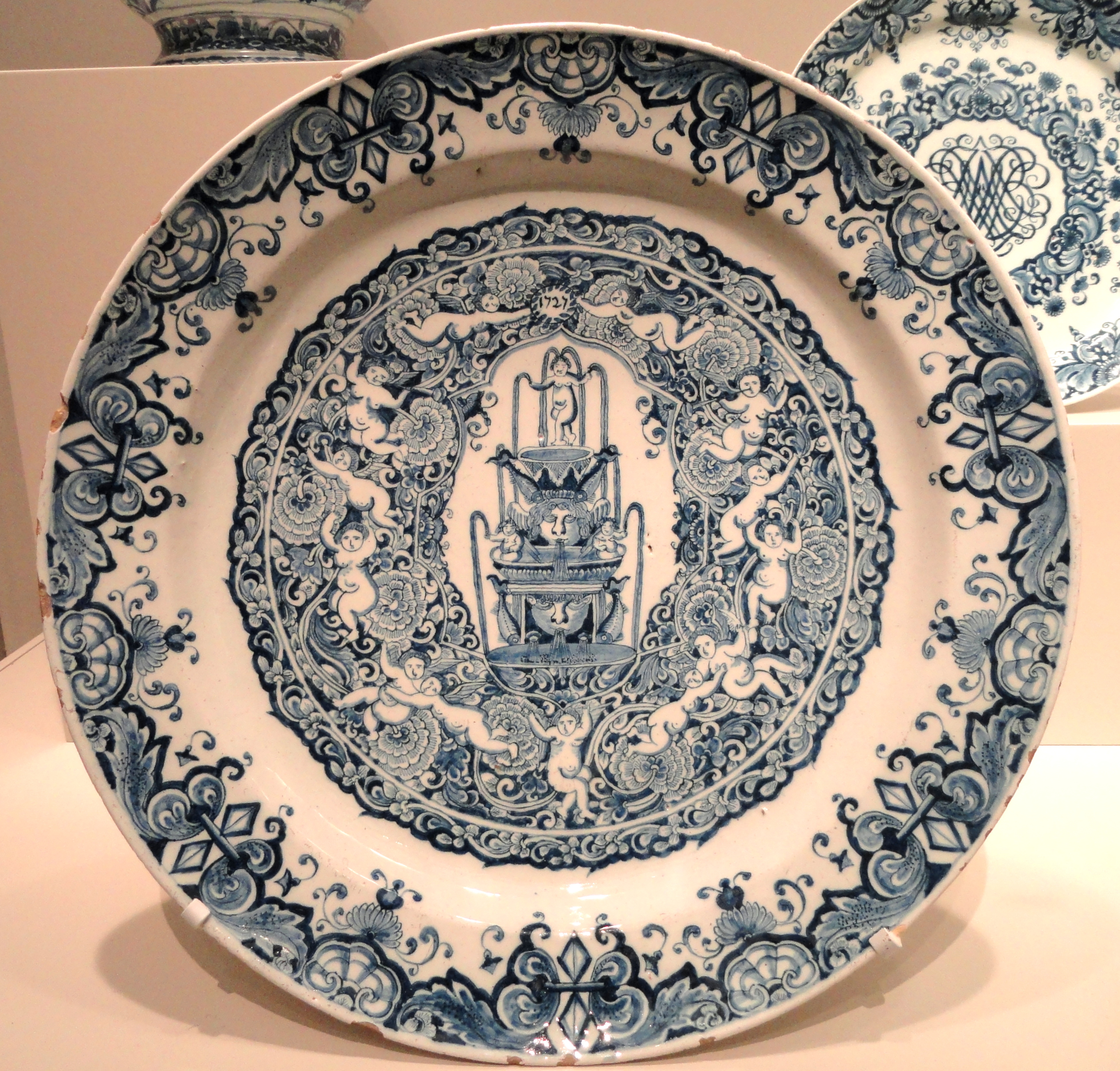 Exhibit in the Art Institute of Chicago, Chicago, Illinois, USA. This artwork is in the public domain because the artist died more than 70 years ago.